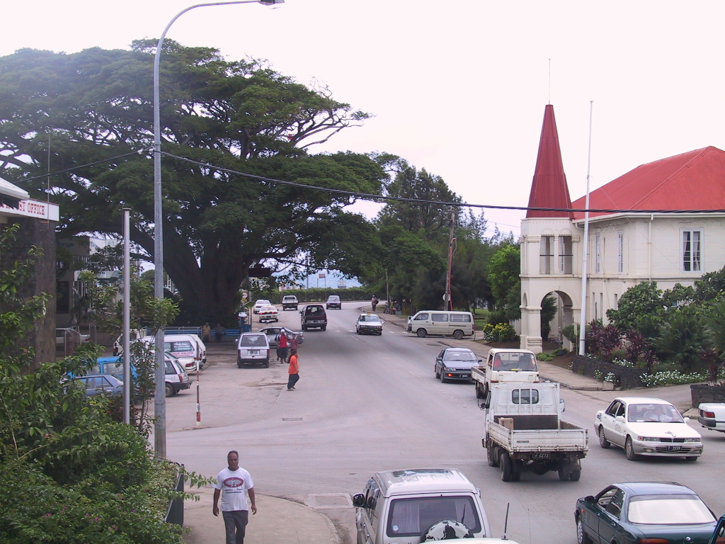 Nuku'alofa, Tonga City centre